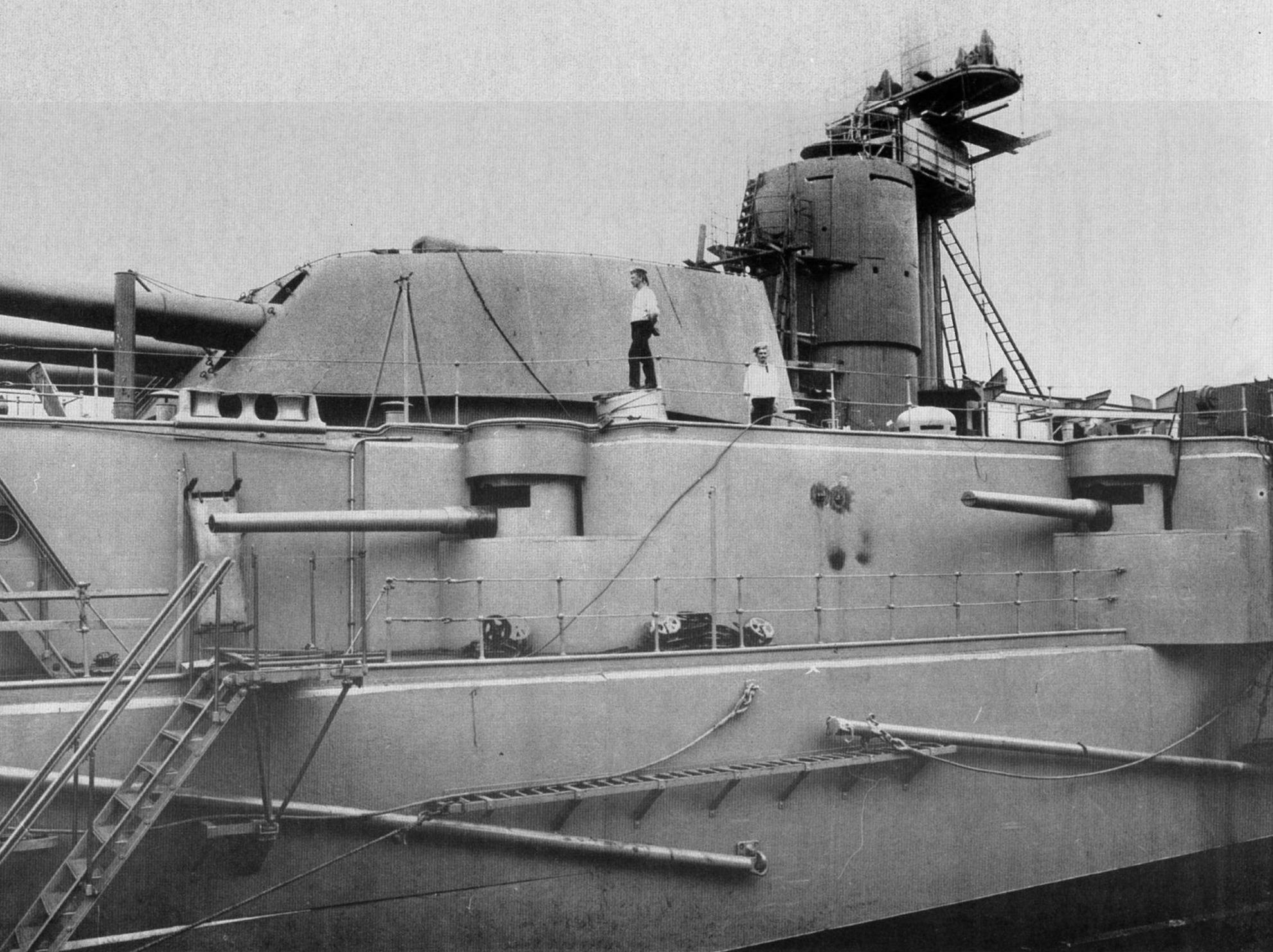 Anti-torpedo boat calibre guns of a Imperial Russian Navy battleship Gangut